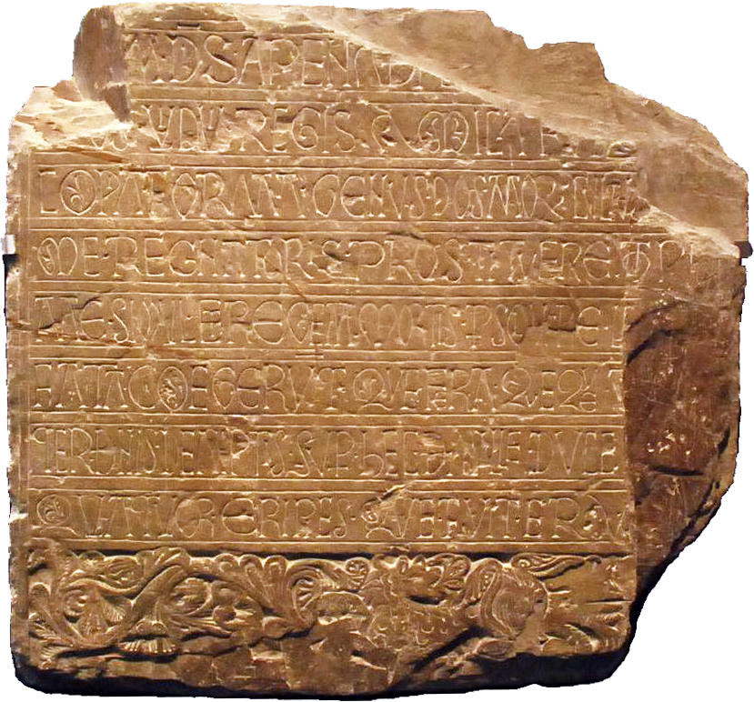 Jimena Muñiz epitaph. (ca. 1060-1128) Jimena Muñiz was the noble lover of King Alfonso VI (1065-1109), by him having two daughters: Elvira, wife of Raymond IV of Toulouse, and Teresa, who was mother of Alfonso Enriquez, first King of Portugal. Born about 1060 to one of the "most noble" families of the kingdom, her parentage was not specified by contemporary sources, and there have been several competing modern hypotheses regarding her origin. One traditional solution made her descendant of an illegitimate son of King Vermudo II of León. Regarding her death, we have been left this epitaph, written in ‘‘dísticos elegiacos’’, stating that she died in 1128, 19 years after the monarch Alfonso VI. The epitaph today is in the Leon Museum, although originally was in the monastery of San Andrés de Espinareda, where Jimena probably was buried. The text says she was friend of the King when he was a widower and despite of her qualities of beauty, good education and membership of the aristocracy, that is, all of the characteristics of a Queen, fatal destiny prevented it, and adds the date of her death in 1128: QUAM DEUS A PENA DEFENDAT, DICTA SEMENA ALPHONSI VIDUI REGIS AMICA FUI; COPIA, FORMA, GENUS, DOS FORUM, CULTUS AMENUS, ME REGNATORIS PROSTITUERE THORIS, ME SIMUL ET REGEM MORTIS PERSOLVERE LEGEM. FATA COEGERUNT, QUE FERA QUEQUE TERUNT TERDENIS DEMPTIS SUPER HEC DE MILLE DUCENTIS, QUATOR ERIPIES, QUE FUIT ERA, SCIES. Translation: Me, called Jimena, whom God free deserved punishment, was friend of King Alfonso when he was widower. My wealth, my beauty, my lineage, my morality and my good treatment reached me until the King thalamus. The hades that unyielding everything destroyed it, forced me to pay tribute to death while the King. Subtracts thirty years and then four and you will know what was the era.